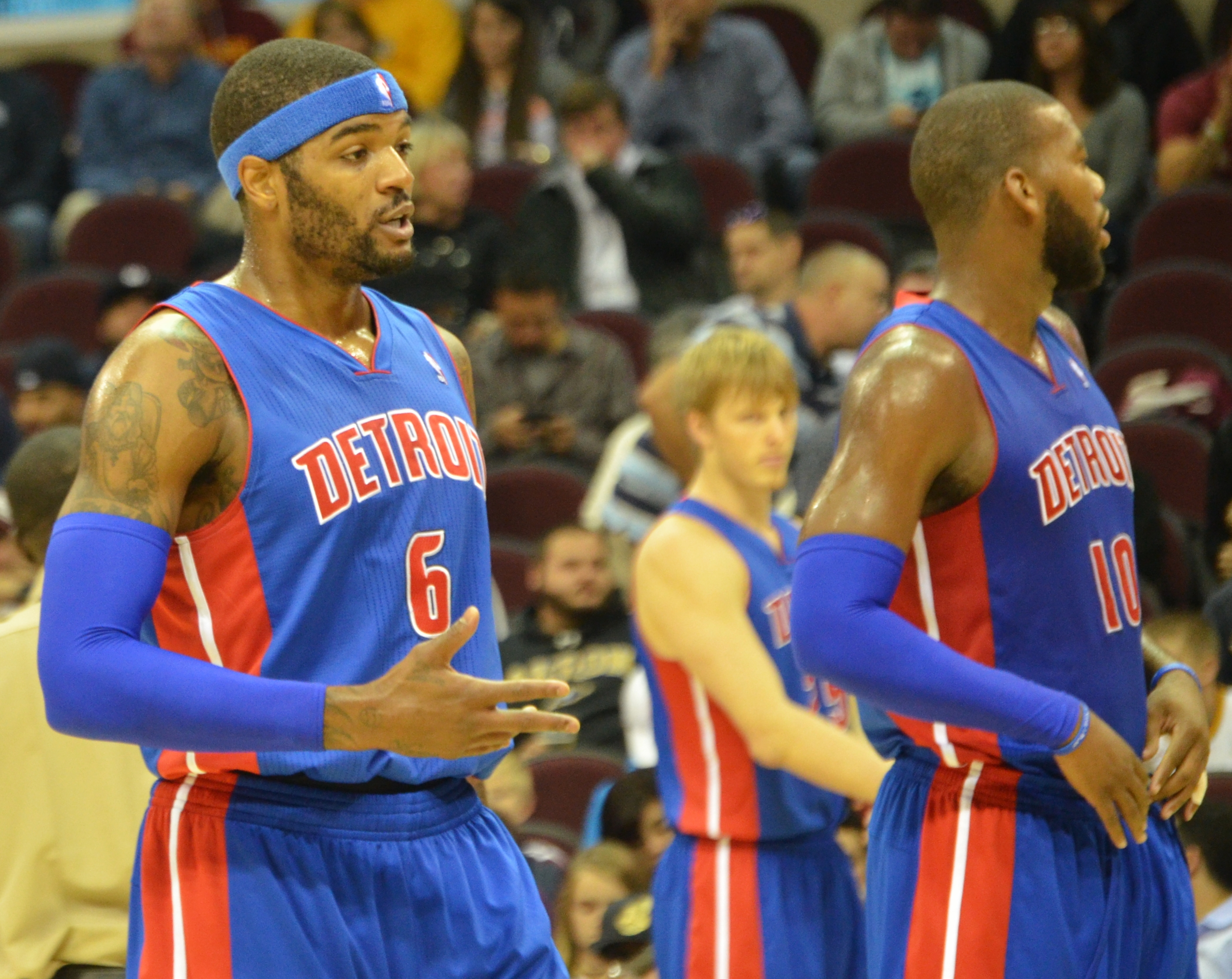 Josh Smith and Earl Monroe